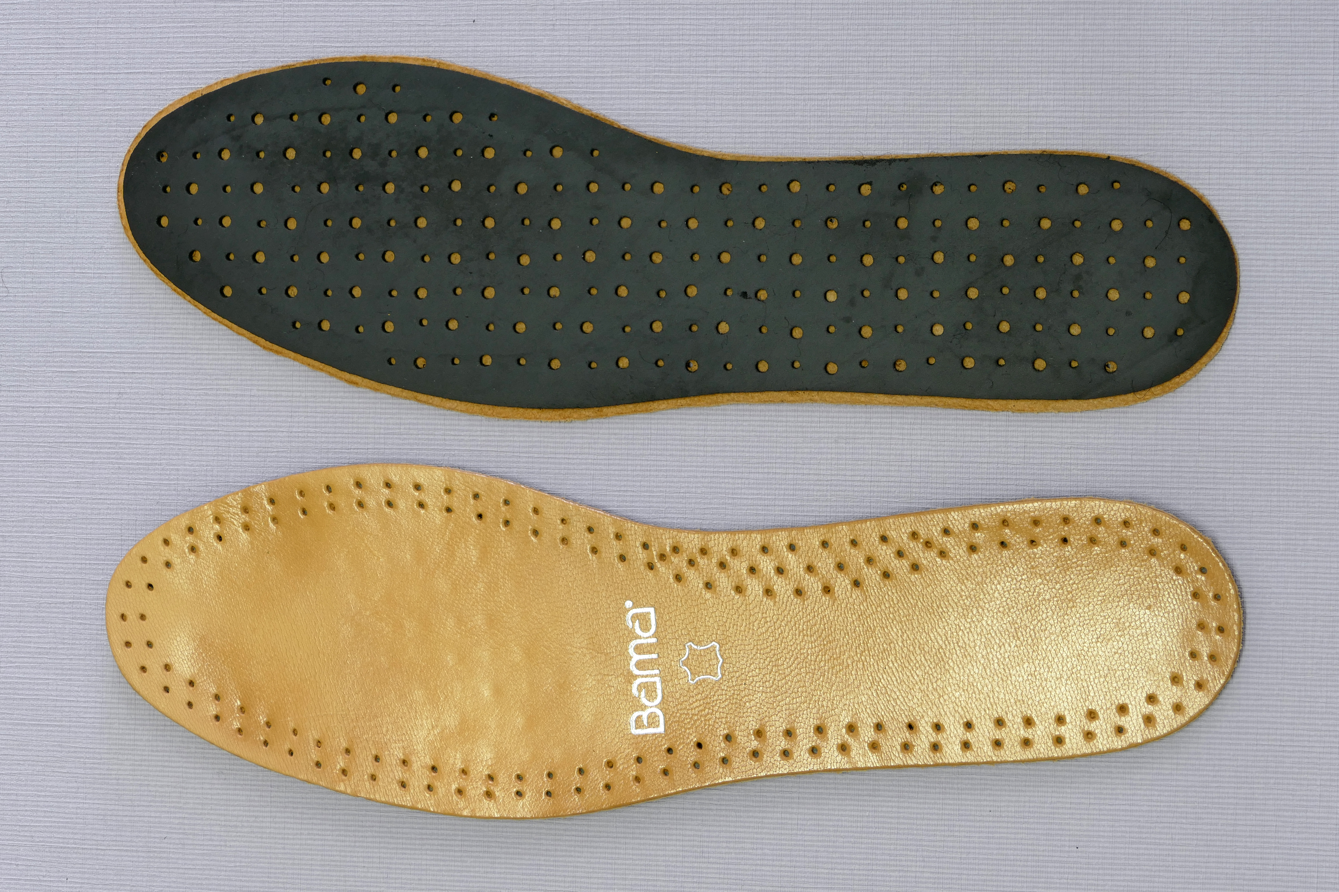 Bama leather inner soles with underside of latex foam, EUR size 39. Photographed in Lysekil, Sweden.